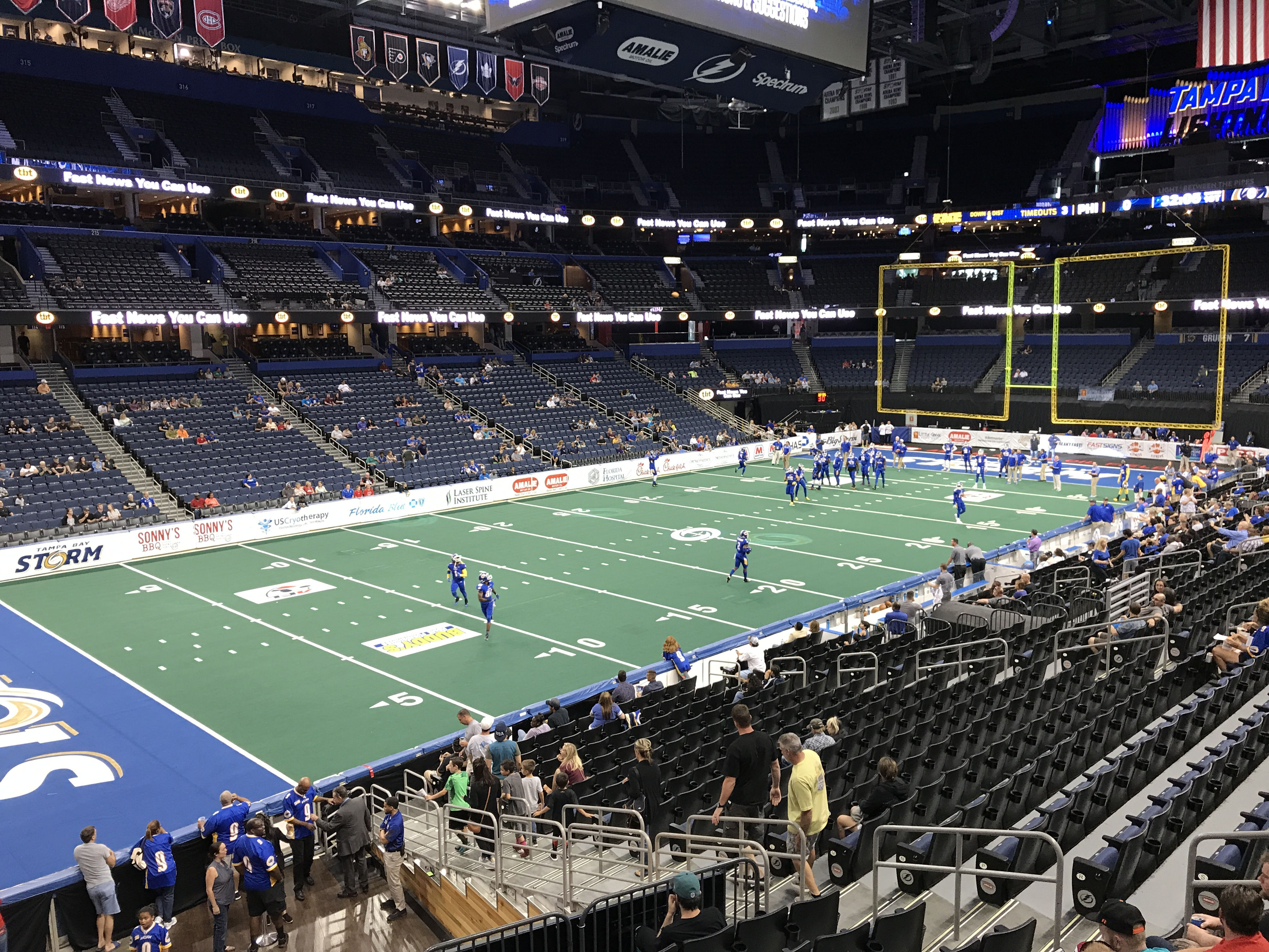 Amalie Arena 04/15/2017